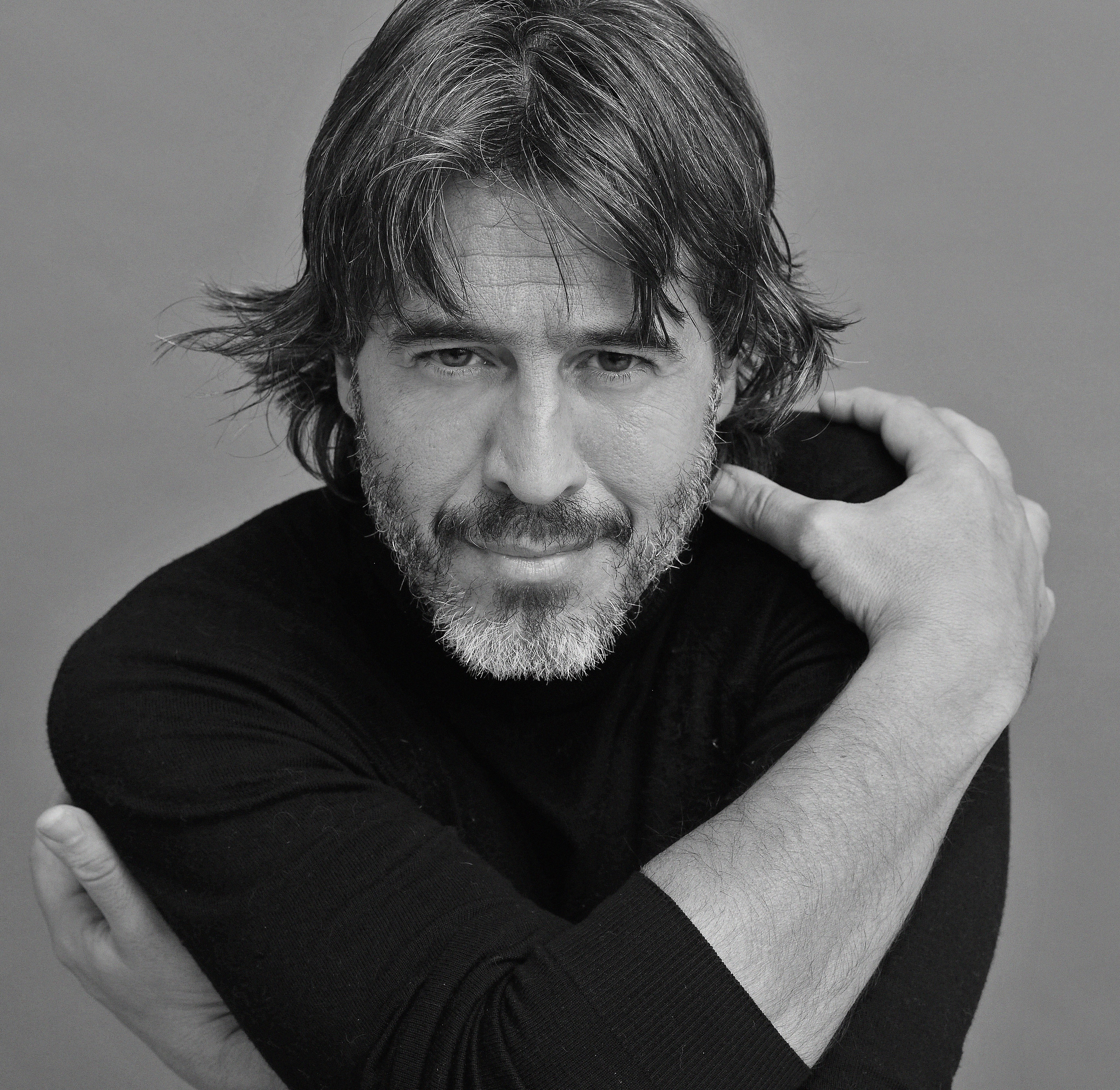 Nominations